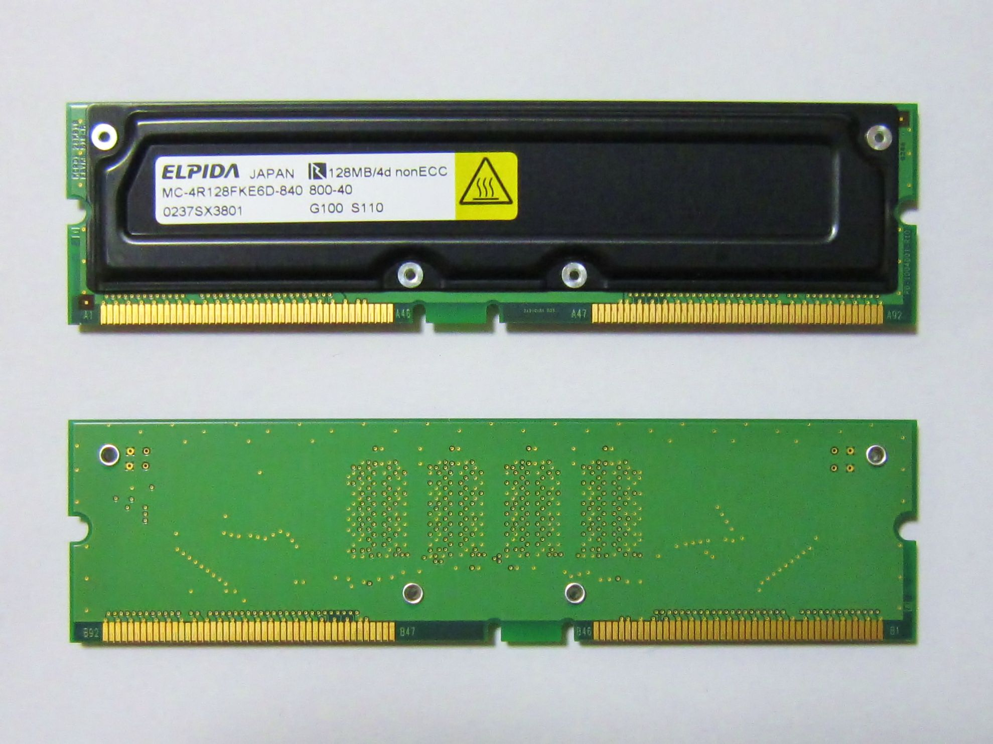 Elpida Memory RIMM 4R128FKE6D-840.